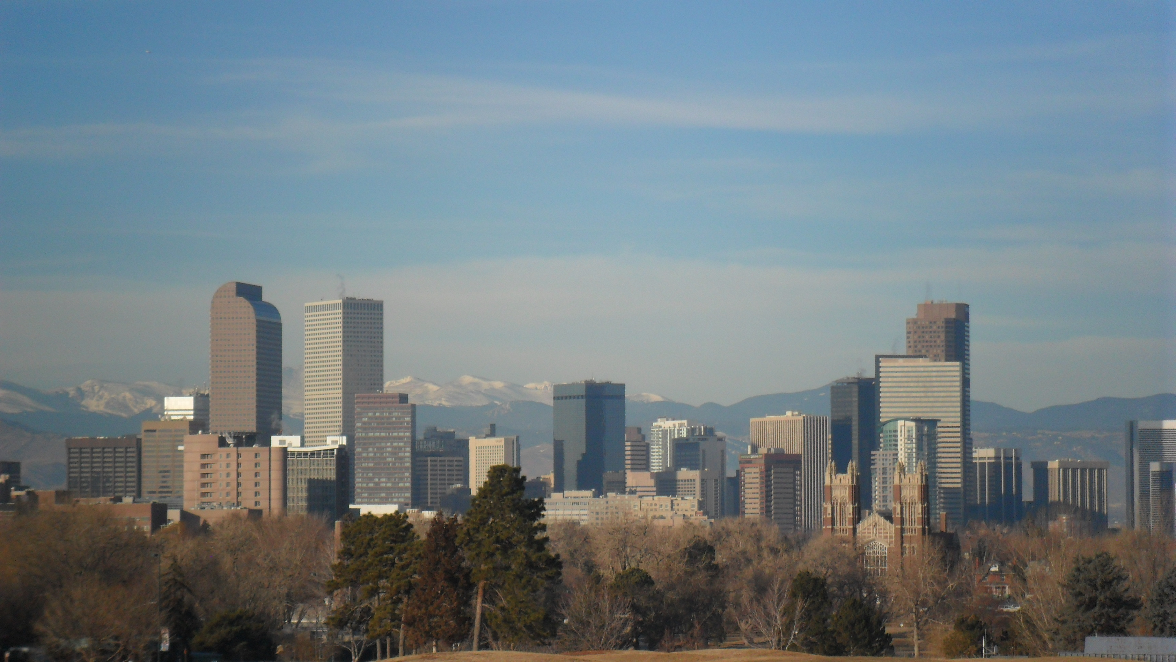 Denver Skyline from City Park